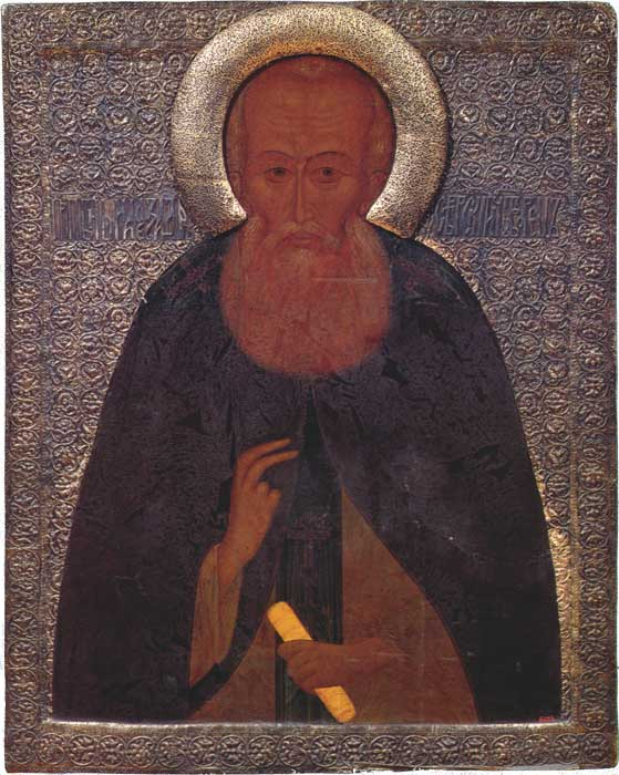 Icon of St. Alexander of Svir (16s century)